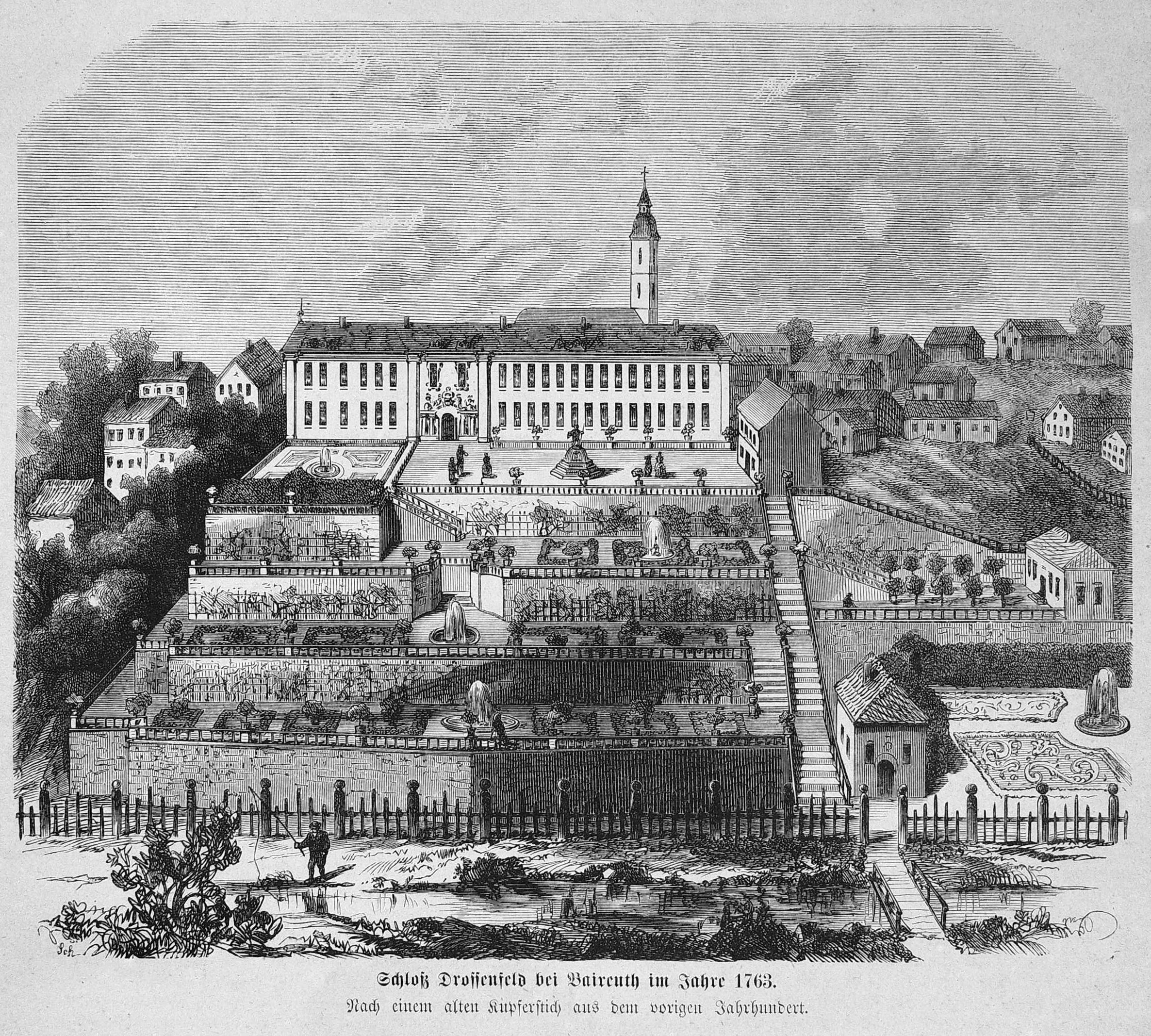 caption: "Schloß Drossenfeld bei Baireuth im Jahre 1763. Nach einem alten Kupferstich aus dem vorigen Jahrhundert."